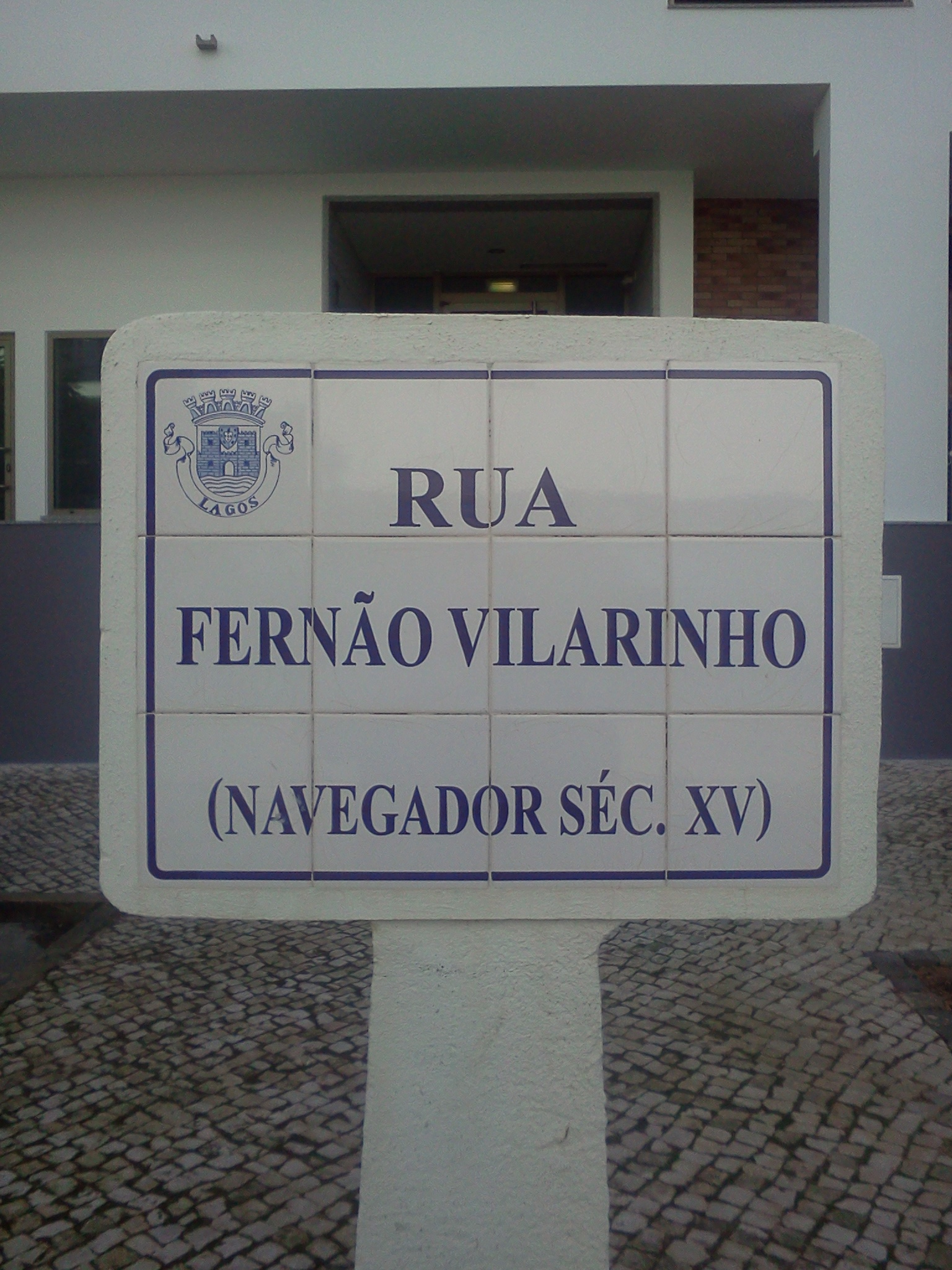 Street sign of Rua Fernão Vilarinho, in the city of Lagos, in southern Portugal.